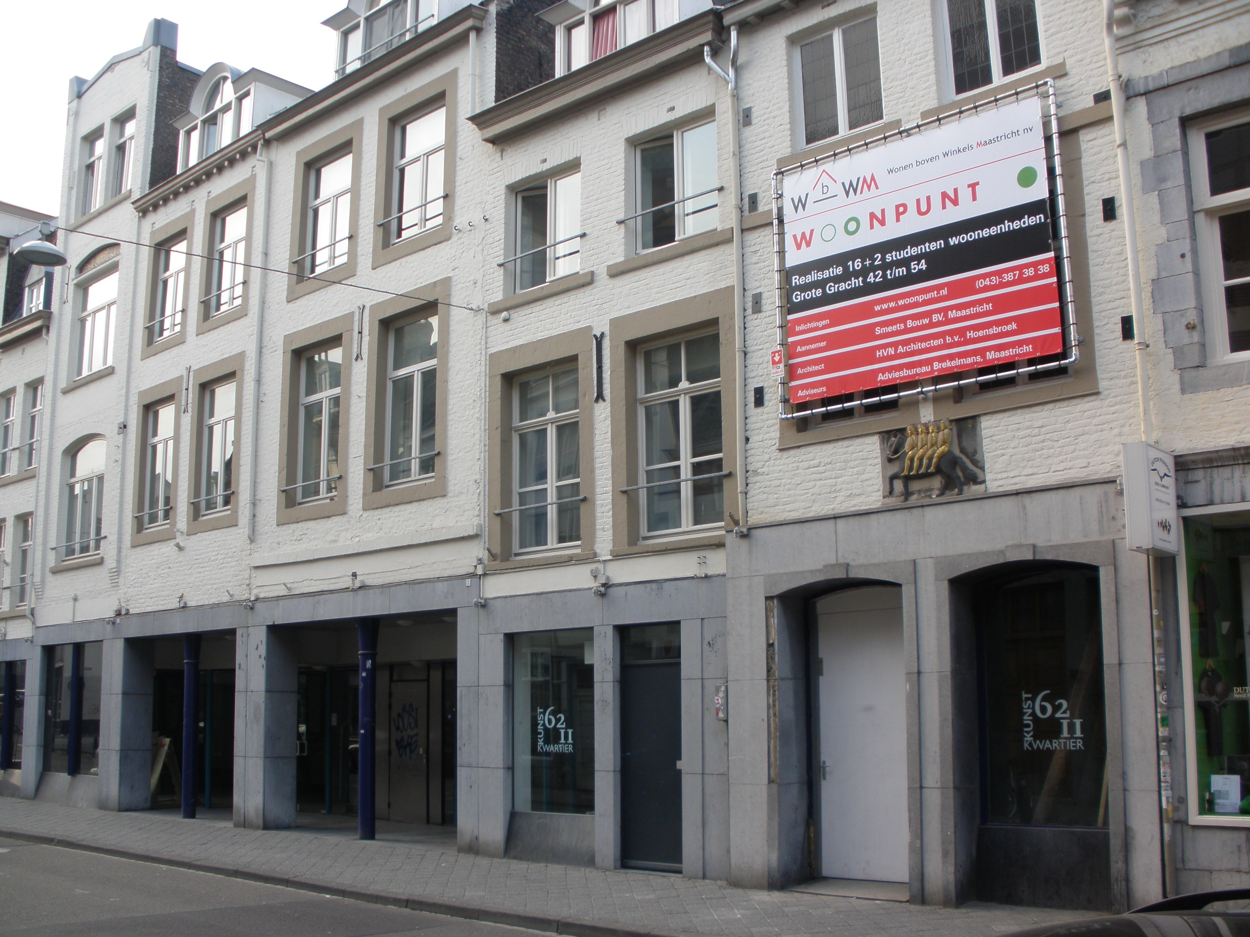 Renovation works at Grote Gracht 42-54 in Maastricht, the Netherlands.